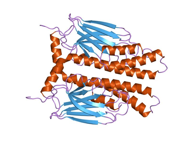 Cartoon representation of the molecular structure of protein registered with 1dky code.